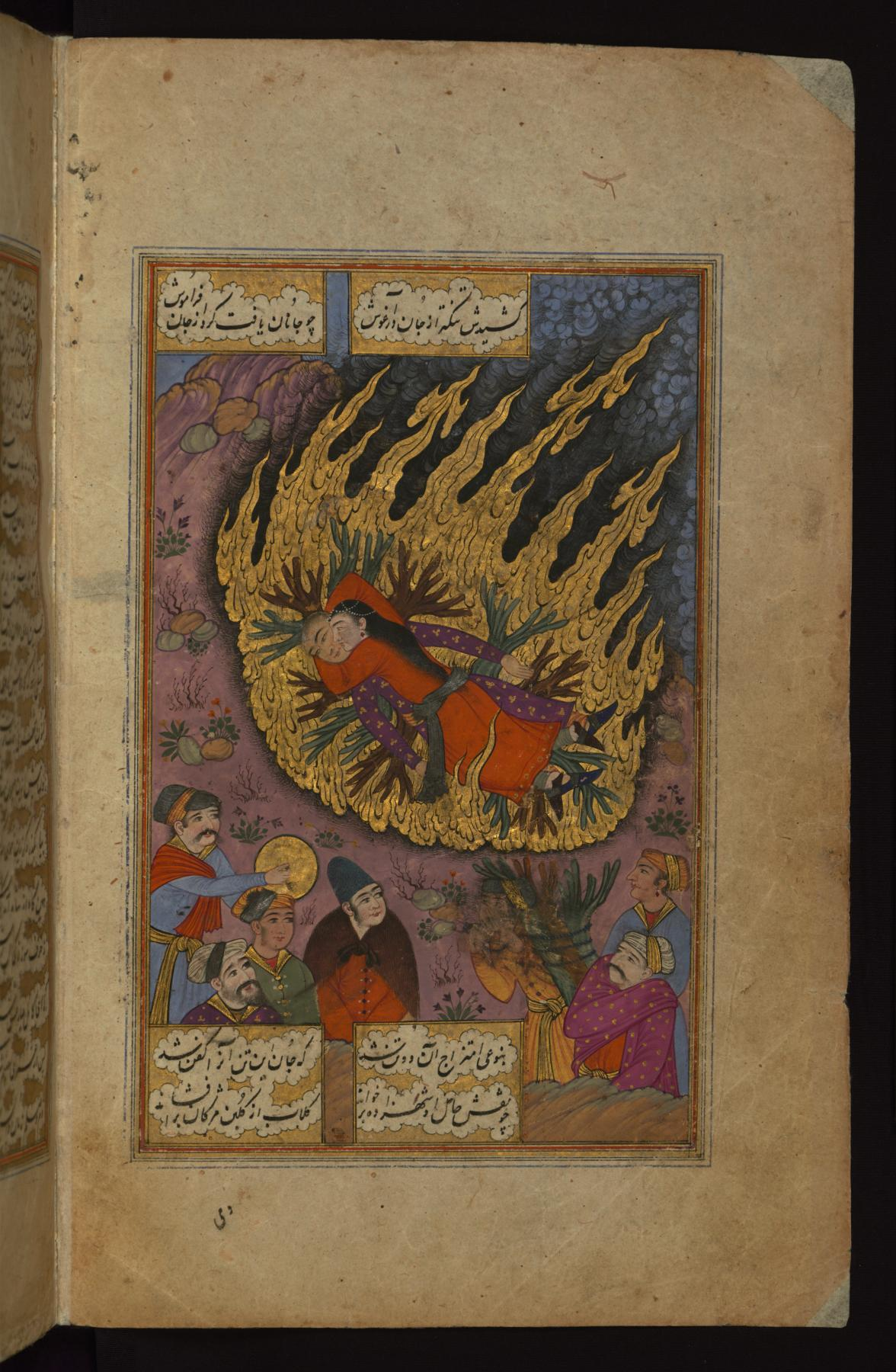 In this folio from Walters manuscript W.649, the young Hindu girl has thrown herself on her beloved's funeral pyre. The historic Hindu practice of self-immolation or widow-burning, called sati, was an uncommon subject for Persian literature. The painting was part of a series created to illustrate a poem written by Naw'i Khabushani (d. 1019 AH/AD 1610) about a girl betrothed, but whose to-be-husband dies before the marriage. The painting was produced in Iran, by Muhammad 'Ali Mashhadi in 1068 AH/AD 1657. According to the colophon, Ibn Sayyid Murad al-Husayni copied the manuscript for the painter Muhammad 'Ali, the "Mani of the time," as a "souvenir." The fact that the manuscript was produced for one of the most prolific artists of 17th-century Iran makes it a highly significant document. Source and folio description from Walters Art Museum